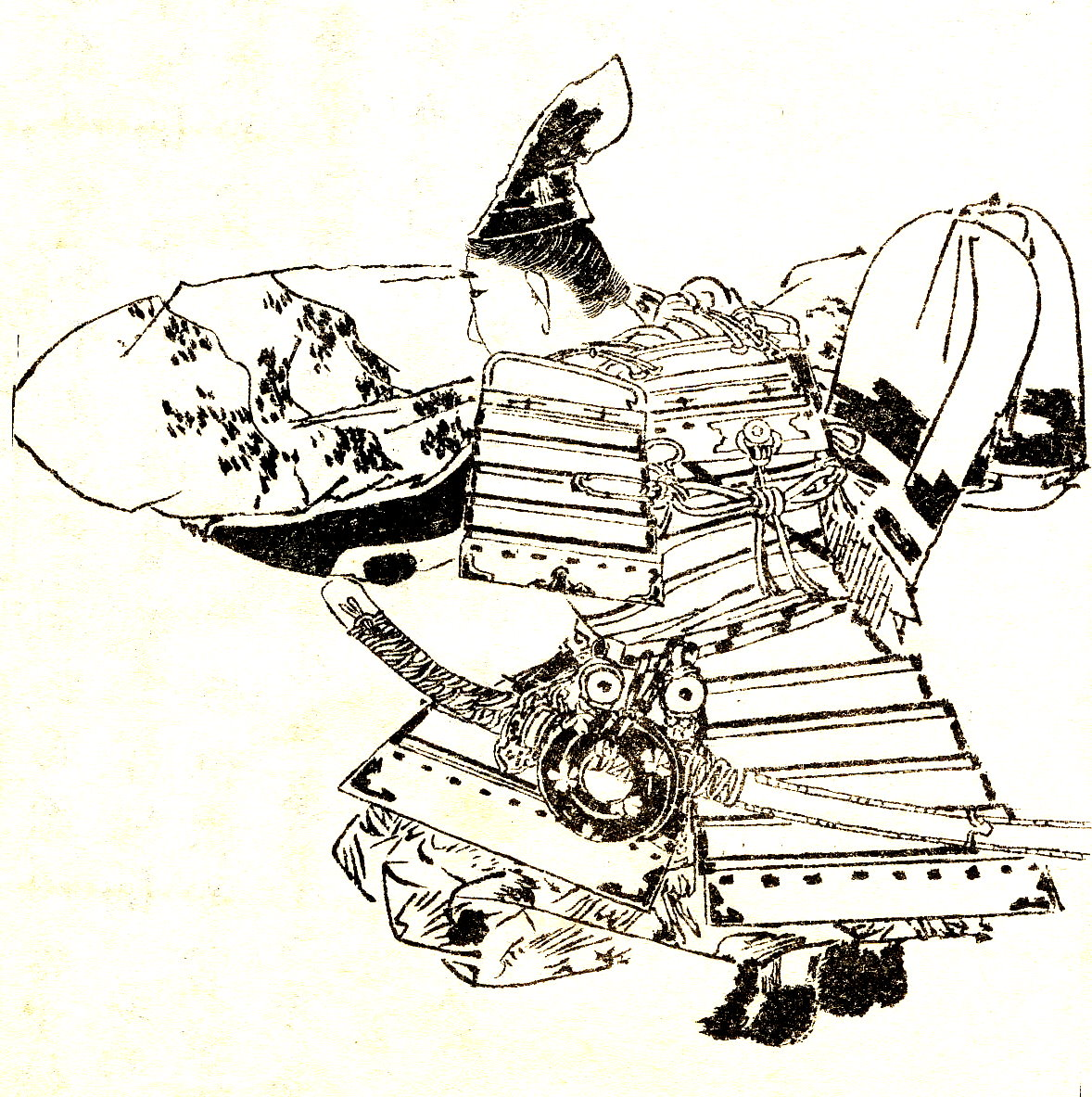 Taira no Tsunemasa（平経正）was one of the Taira Clan's chief commanders during the Heian period of the 12th century of Japan.This picture was drawn by Kikuchi Yosai（菊池容斎） who was a painter in Japan.